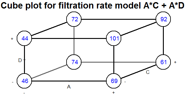 Montgomery filtration cube plot for final model